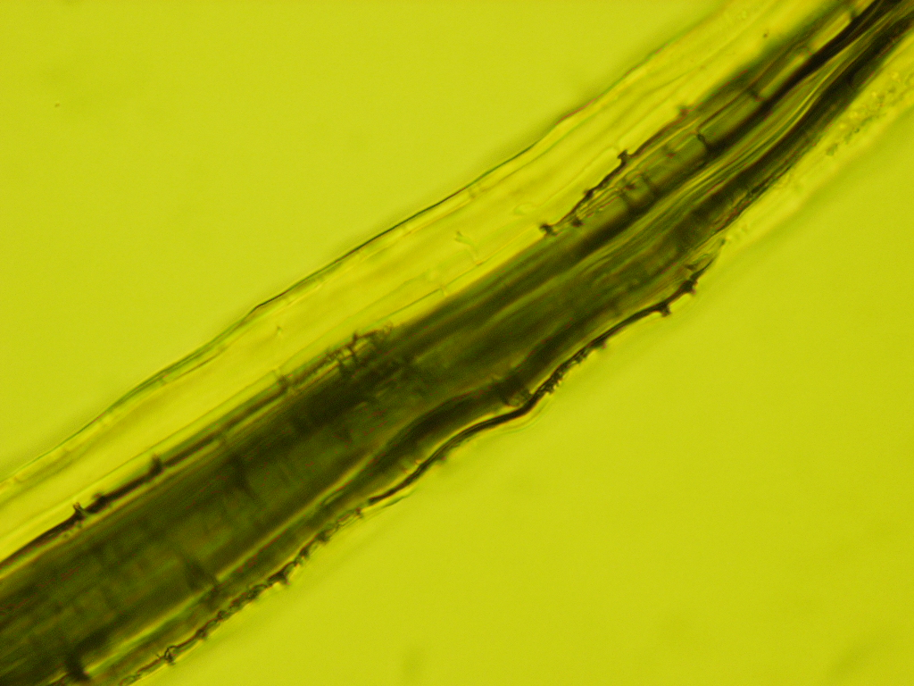 Coir 40X Magnification Taken at Strathclyde University Forensic Science Department Taken By Edward Dowlman